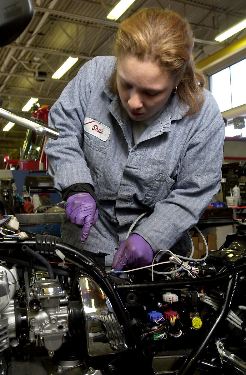 Mechanic Shae Davies repairing a Seattle Police were using Kawasaki Kz1000P motorcycle at an unidentified Fleet Maintenance shop in Seattle, Washington, 2000. Item 105463, Fleets and Facilities Department Imagebank Collection (Record Series 0207-01), Seattle Municipal Archives.